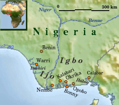 Ijaw region and historical city states